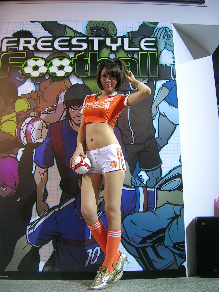 at the 2008 GStar Game Show in the KINTEX (Ilsan, ROK)